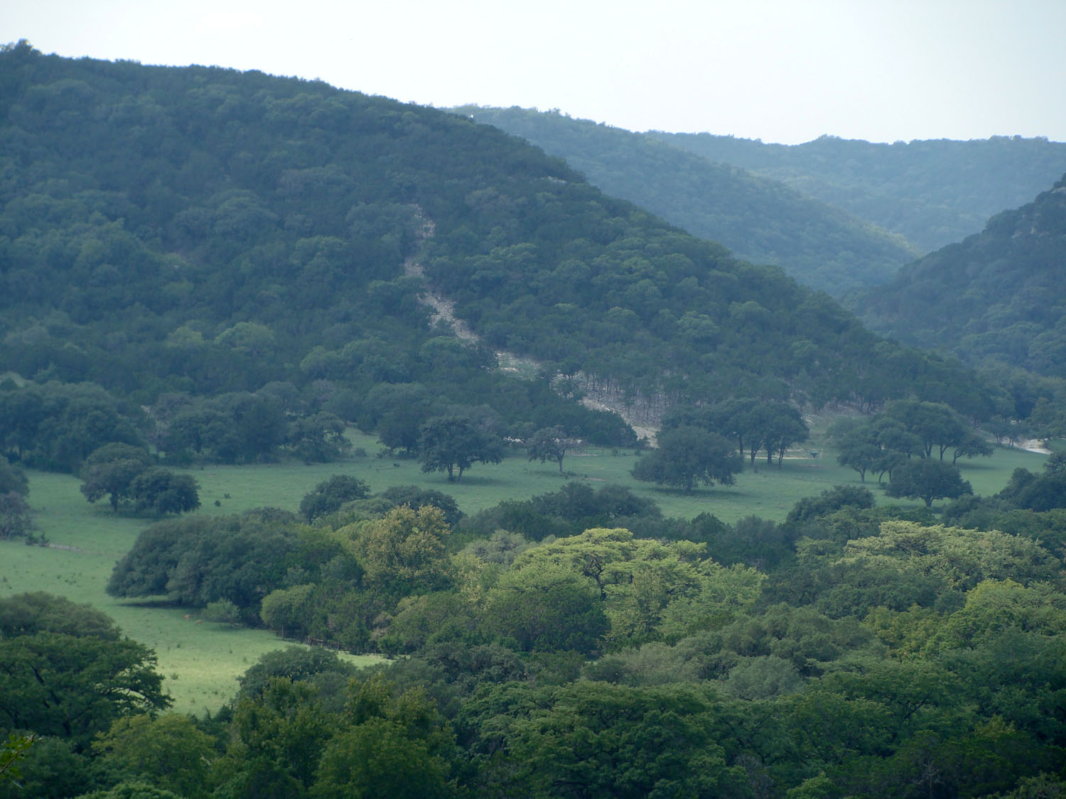 Texas Hill Country, on Route 187 heading North, just north of Garner State Park.